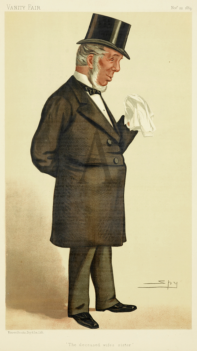 Caricature of Sir Thomas Chambers QC MP. Caption read "The deceased wife's sister".